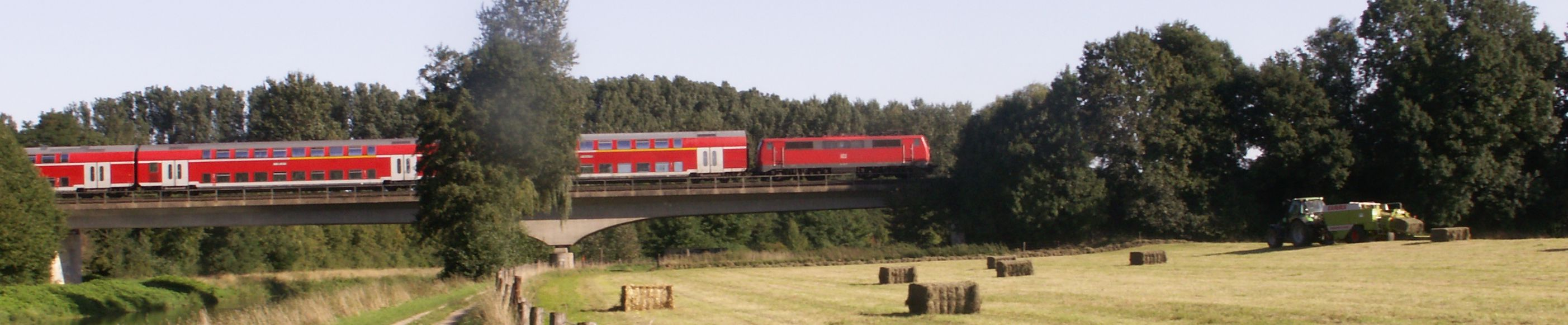 Train on a bridge between Baal and Brachelen, Germany; Deutz-Fahr tractor with Claas baler baling hay